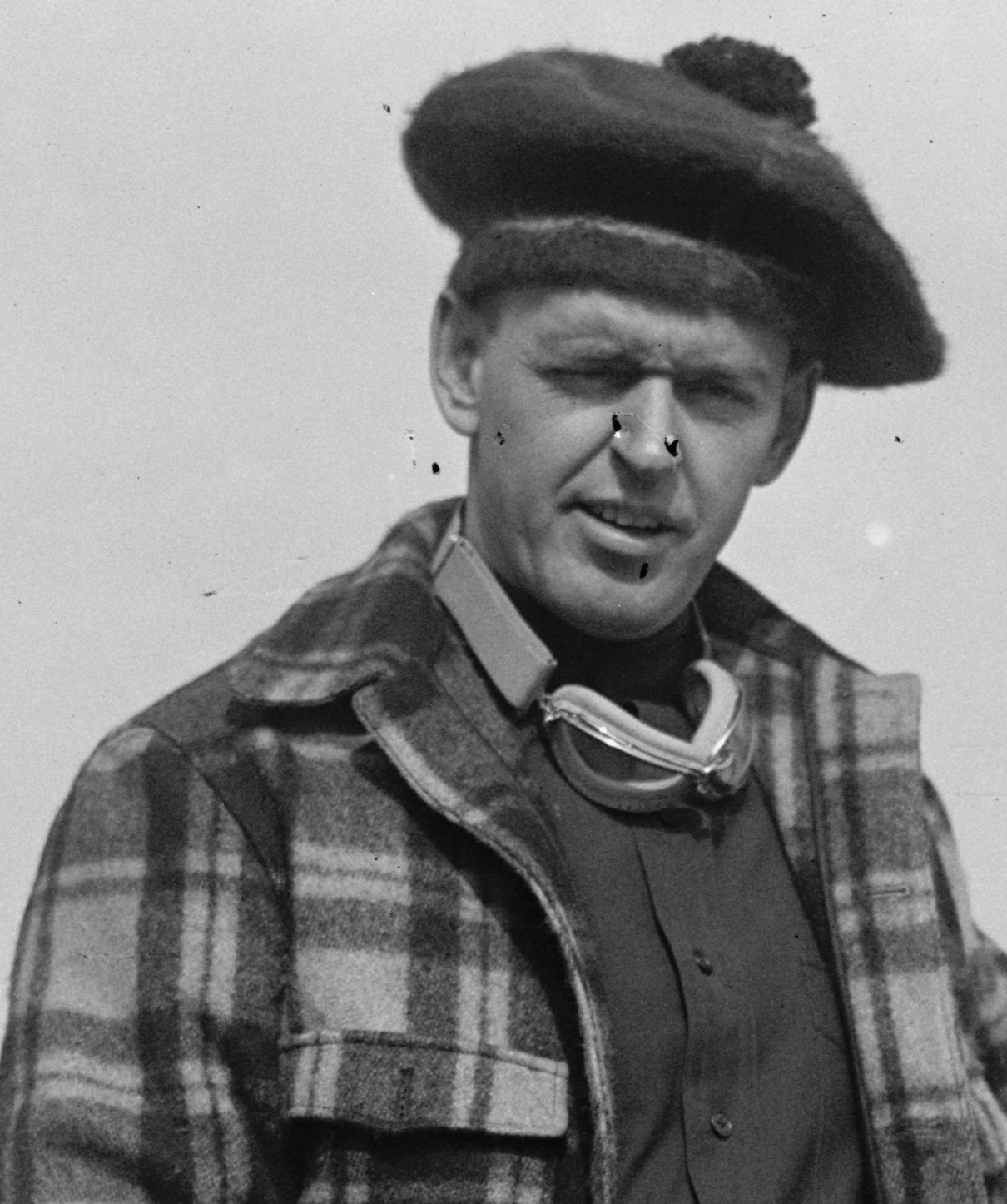 Tommy Milton (American racecar driver) in 1925